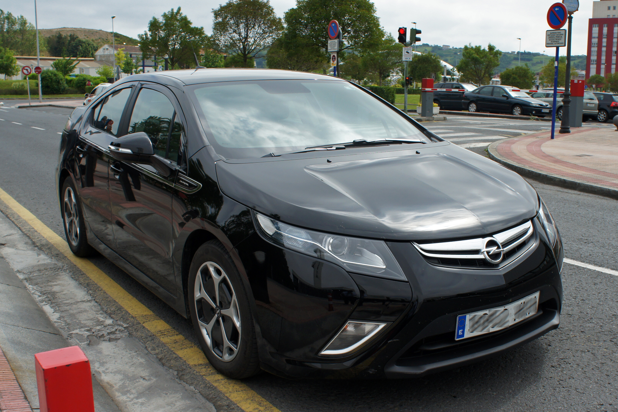 2012 Opel Ampera, Bilbao, Spain